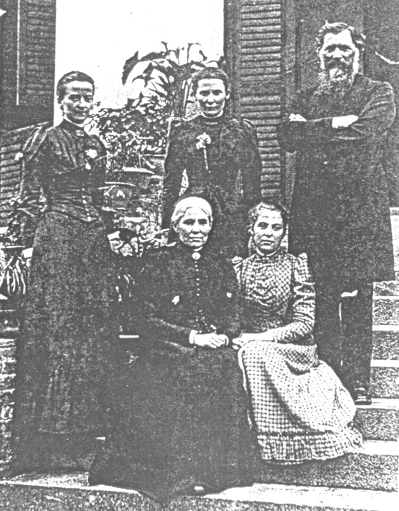 Revd John Wolfe with wife, Mary, and daughters, Minnie, Annie and Amy, taken in Fuh-Chow, China